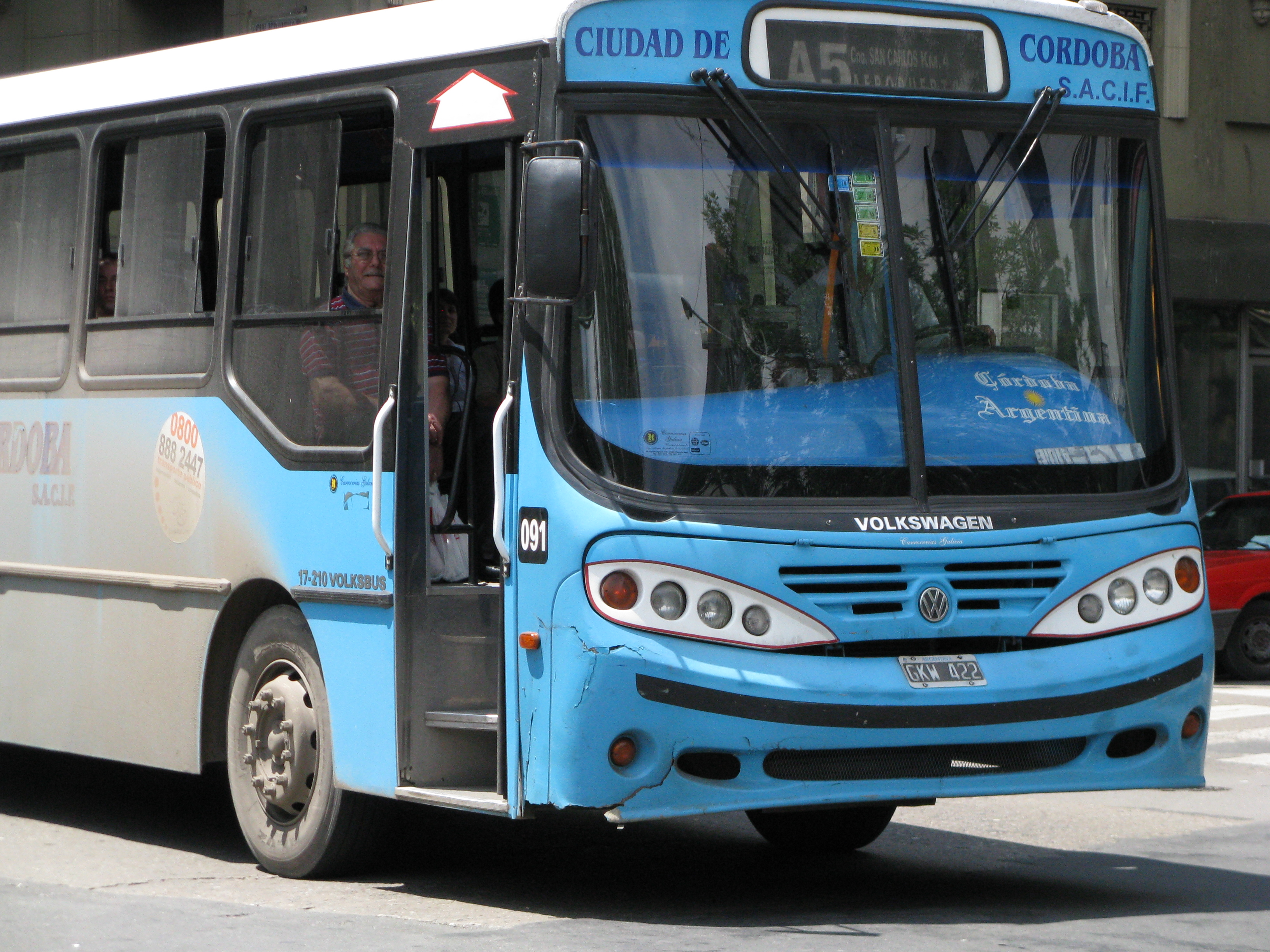 City bus in Córdoba, Argentina.